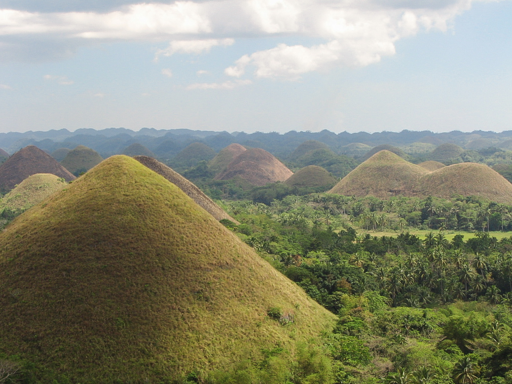 The Chocolate Hills in Bohol Province, Philippines.